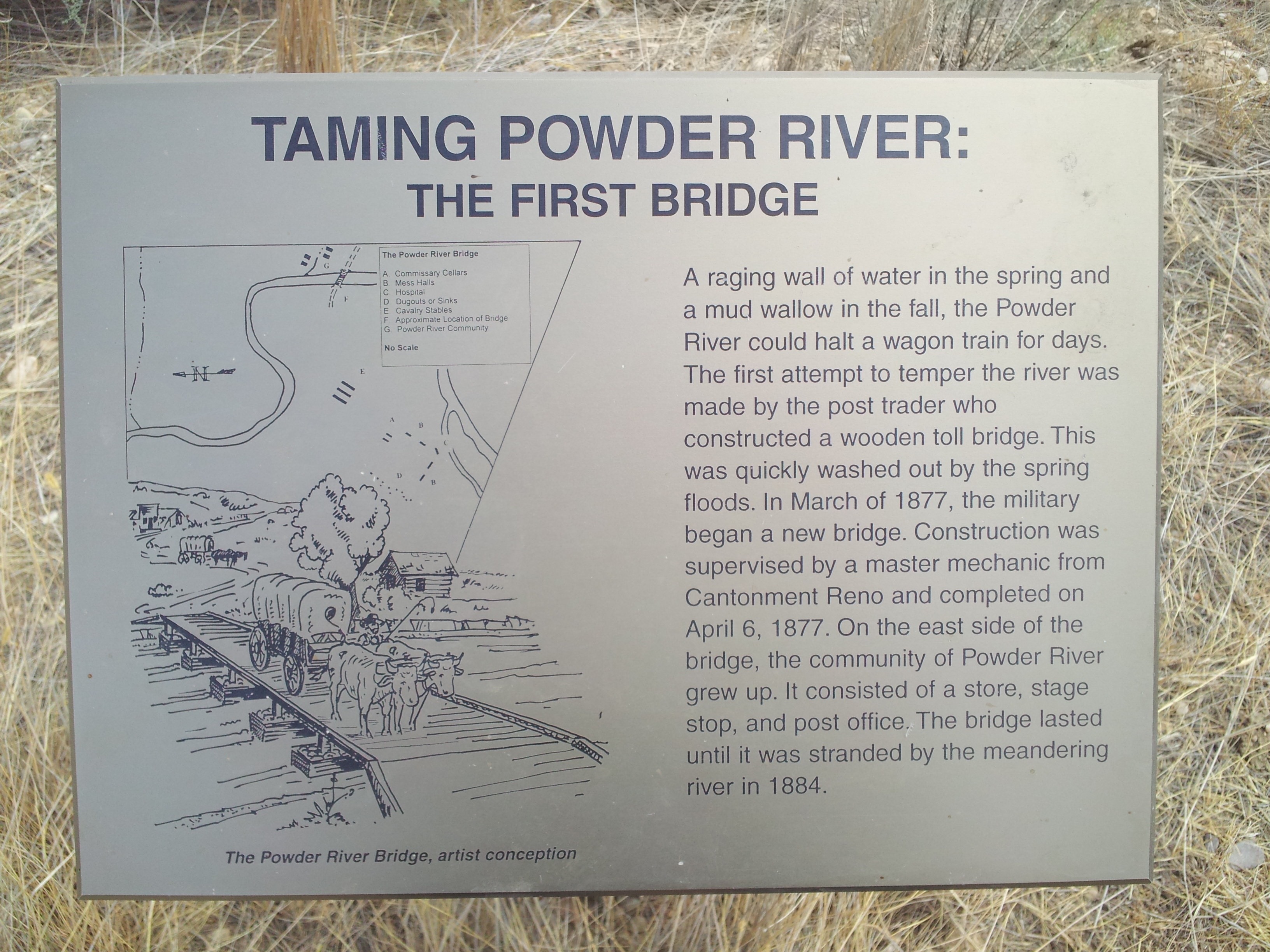 BLM Sign on Lower Powder River Road near Kaycee Wyoming to provide interpretation for Powder River Crossing